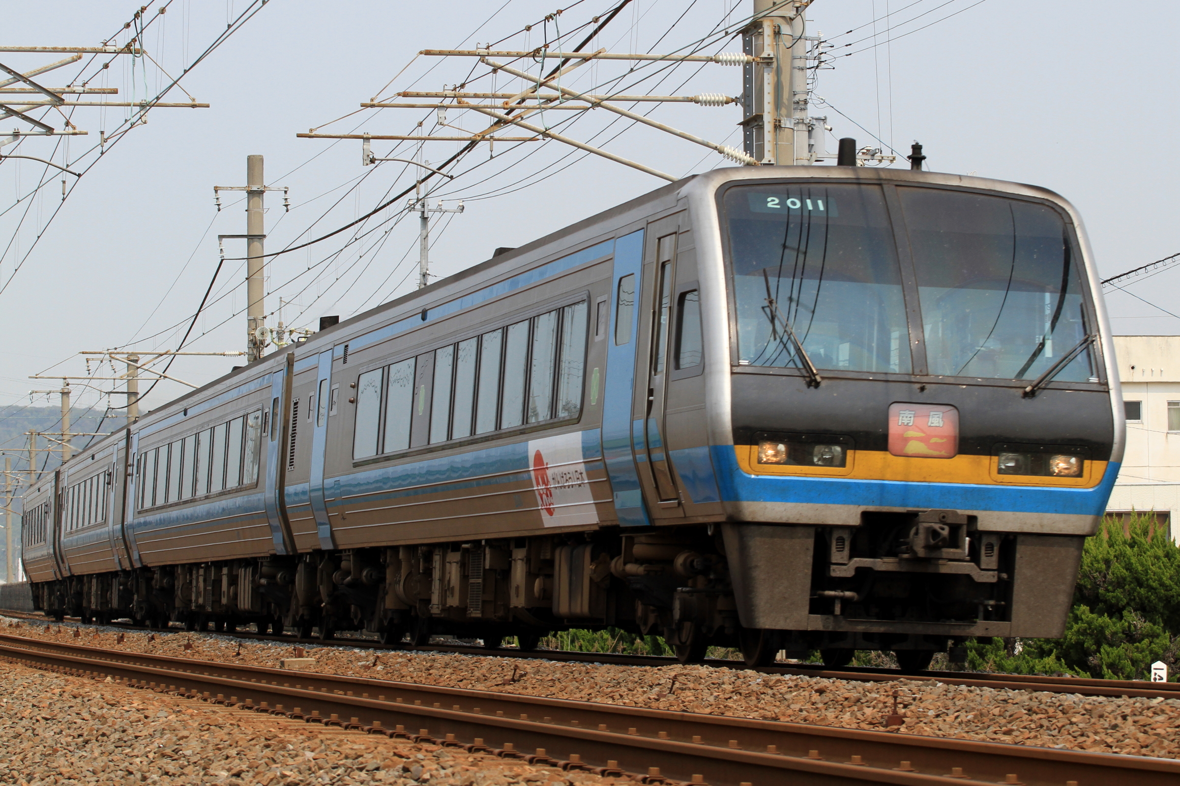 JR Shikoku 2000 Series DMU for the Limited Express Nanpu